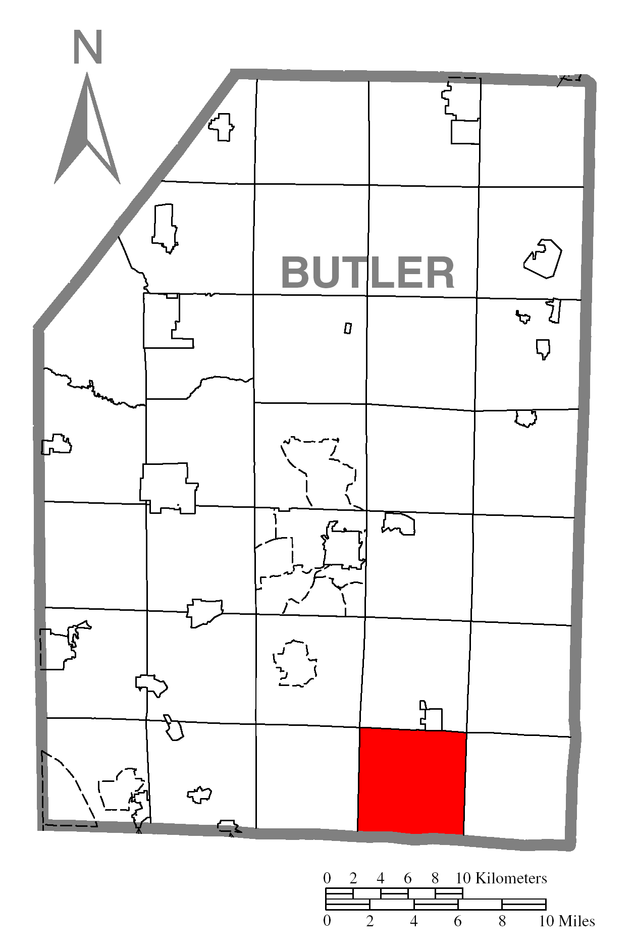 A map of Butler County showing Clinton Township, Pennsylvania (alternate) highlighted on the map.